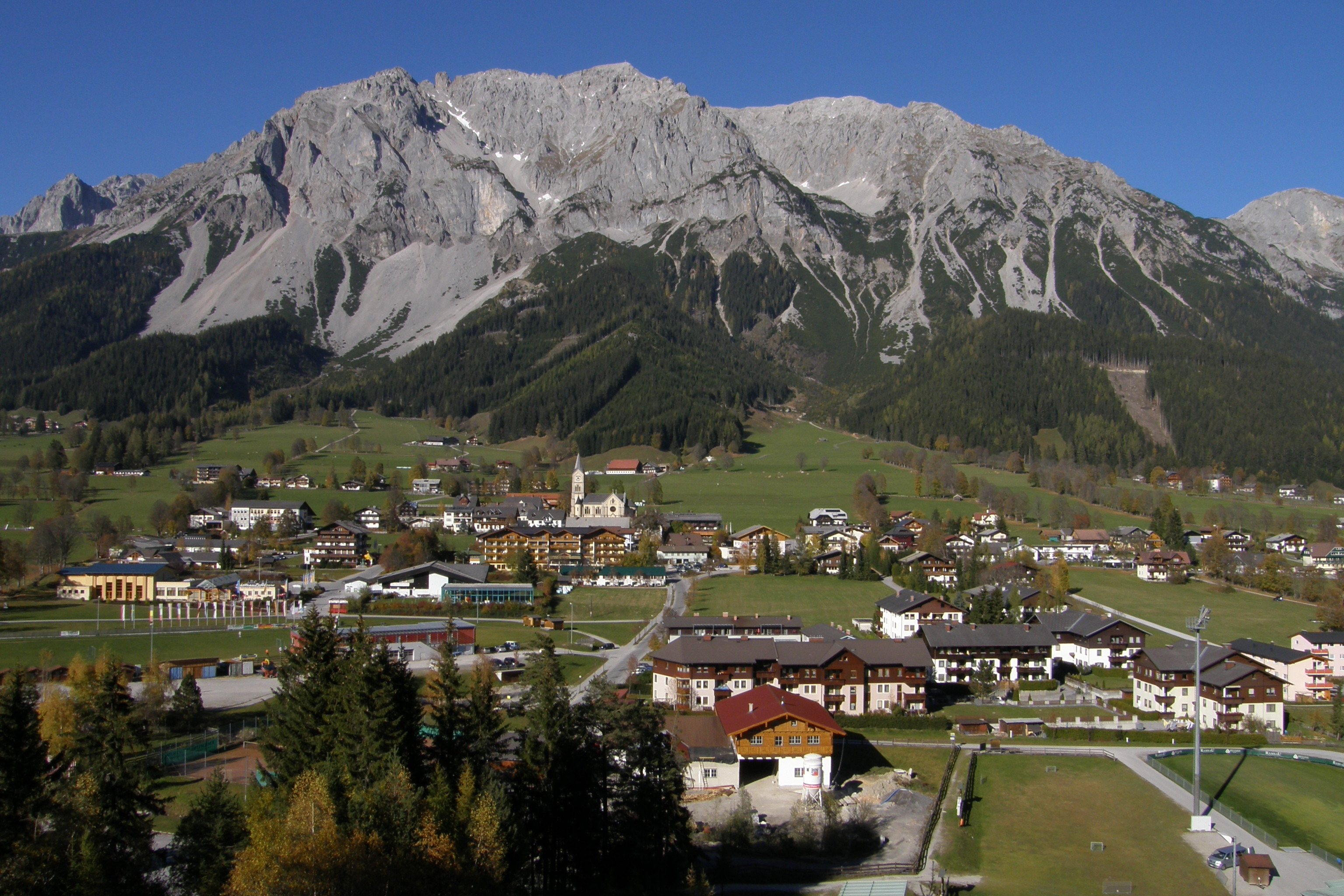 Ramsau am Dachstein, view towards the North to the Dachstein range. The Hoher Dachstein is not visible, because located further to the west.